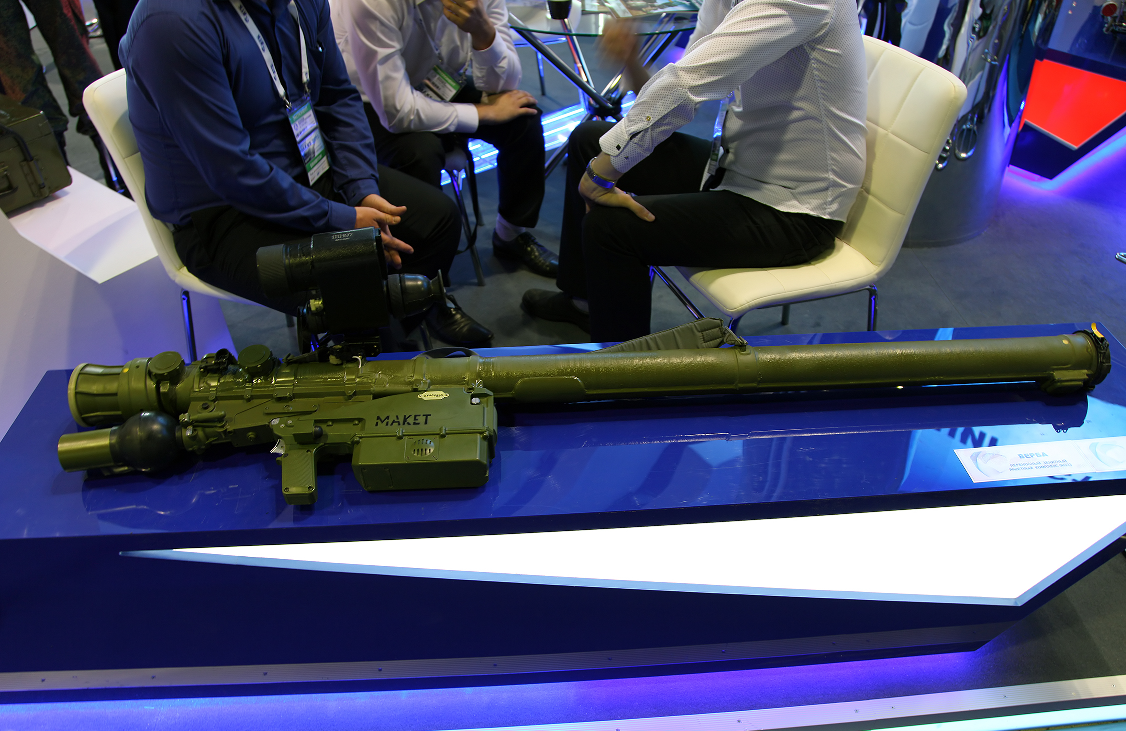 Inert mockup of 9K333 Verba MANPAD